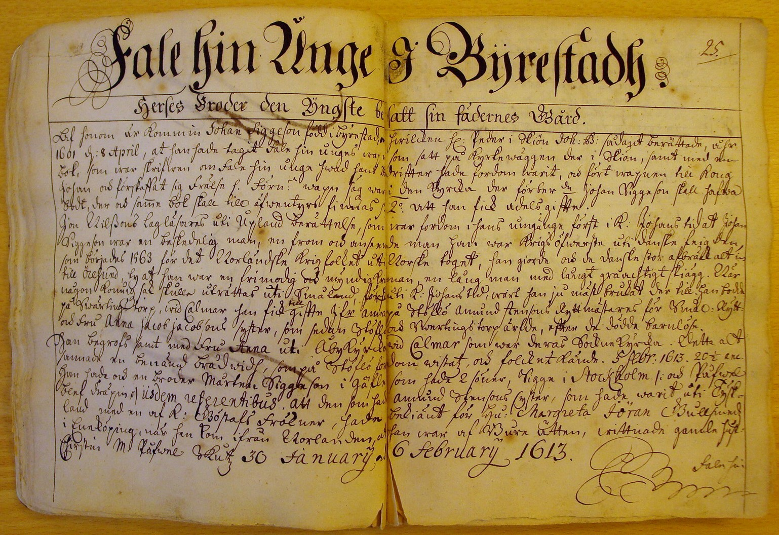 Page 24v-25r in the family chronicle (the Bure family) written by Johannes Thomae Bureus around year 1601. (Manuscript with signum X37 in the Uppsala Universitetsbibliotek, Sweden)